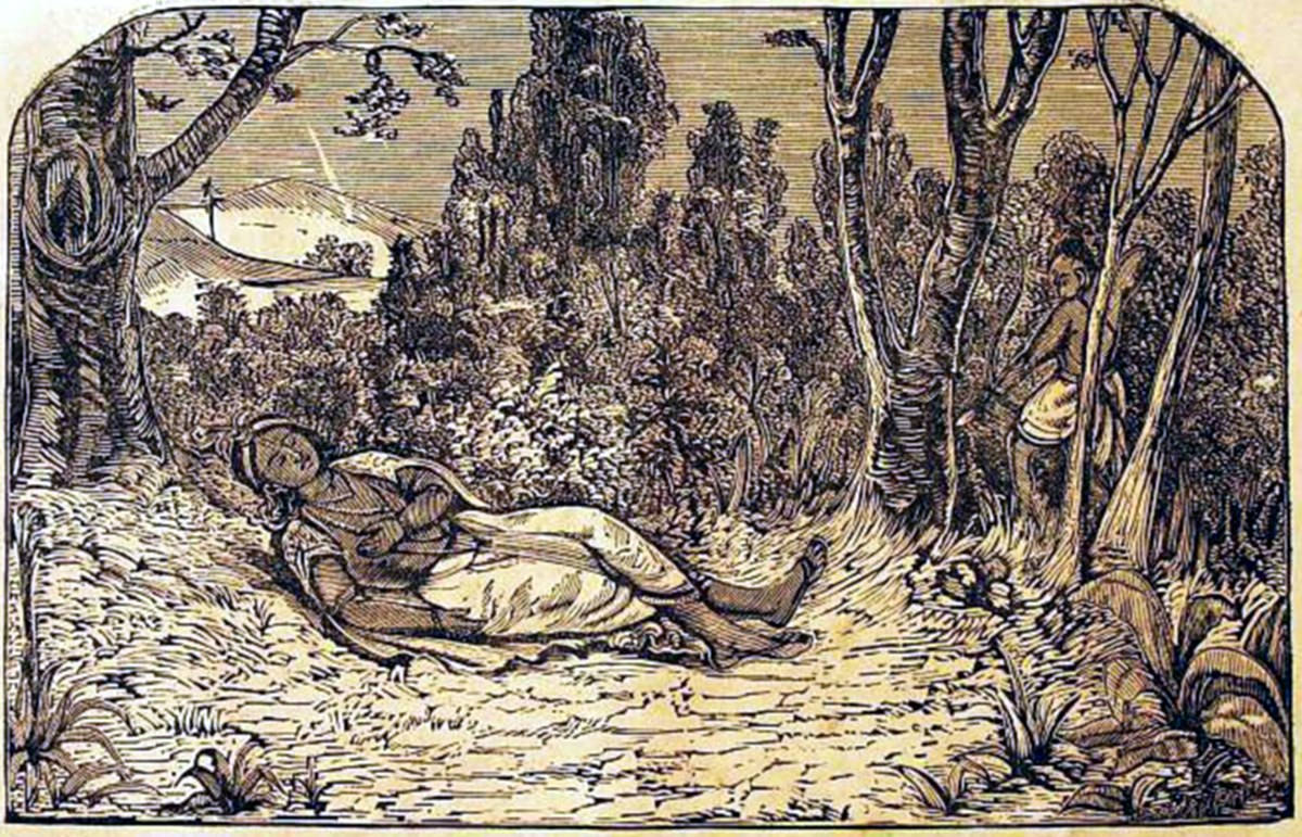 During nineteenth century the princely state of Barddhaman (Burdwan) in Bengal had patronized literature and arts immensely. Many ancient Sanskrit scriptures and Hindu epics were translated into Bangla and published regularly. The then ruler of Barddhaman, Maharaja Mahatab Chand Bahadur (1820 - 1879) encouraged such activities. Here we showcase six illustrations from the Barddhaman edition of Mahabharata, which were printed in wood engraving technique. On the cover was pasted a wood engraved portrait of the ruler of Barddhaman. Death of Krishna